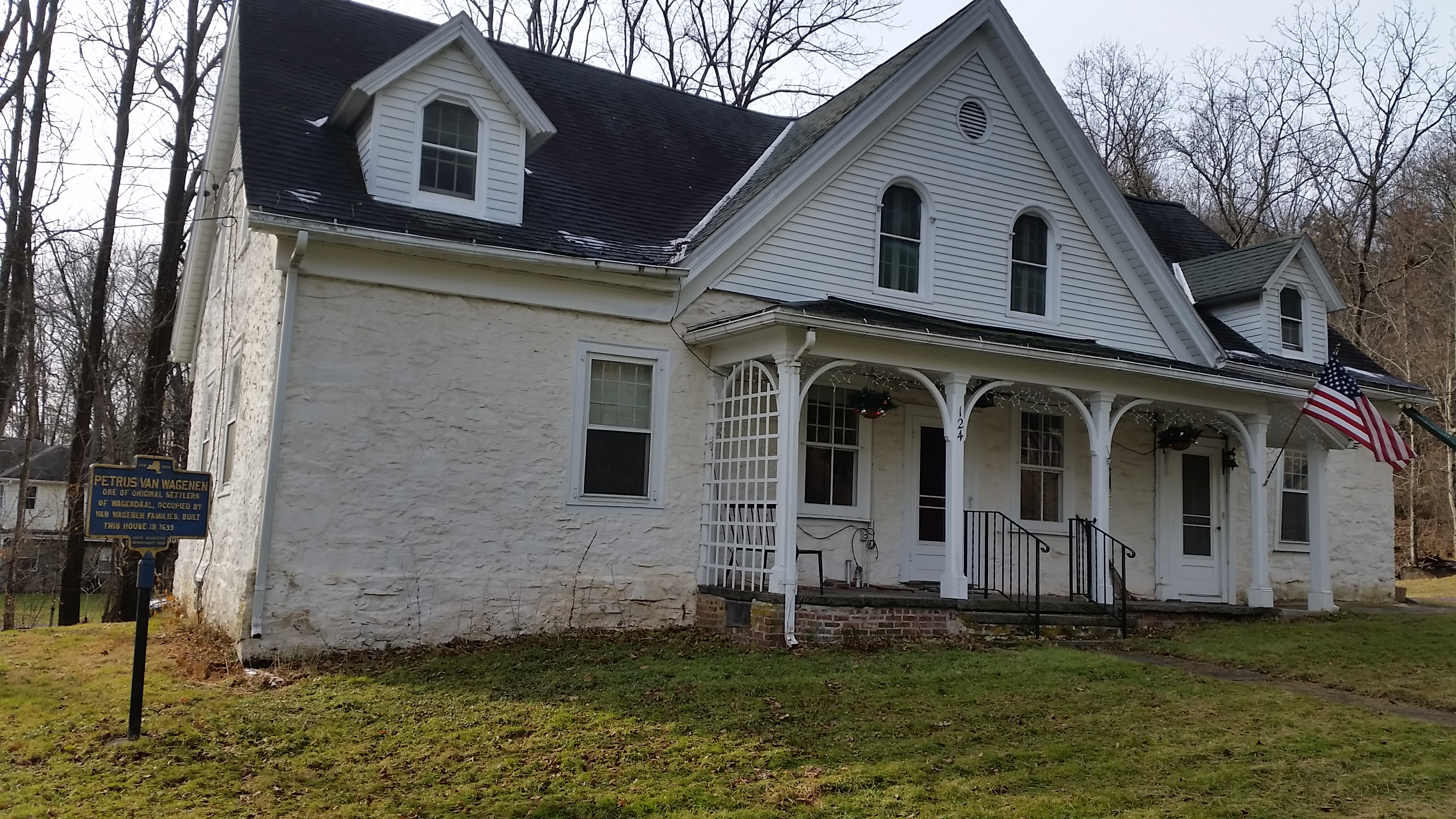 New York State historical marker for P Van Wagenen house